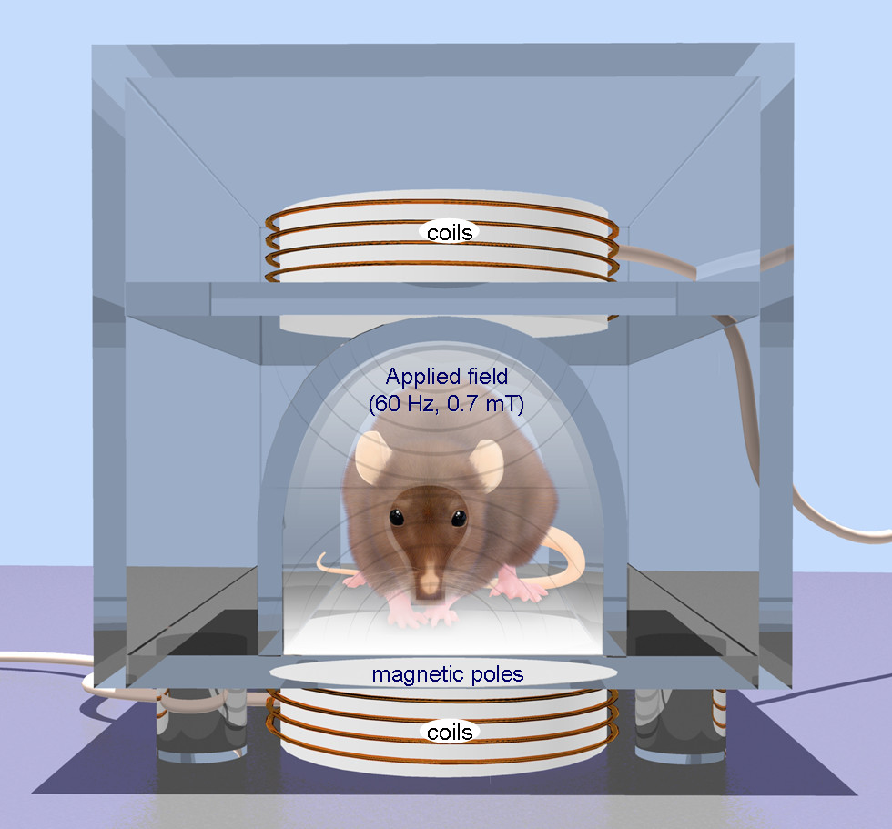 Repetitive transcranial magnetic stimulation (rTMS) is a technique for noninvasive stimulation of the adult brain. Stimulation is produced by generating a brief, high-intensity magnetic field by passing a brief electric current through a magnetic coil. Compared with the growing number of clinical trial with rTMS, there are surprisingly few animal studies on its basic mechanisms of action, constraining the ability to perform hypothesis-driven clinical studies. Arias-Carrión International Archives of Medicine 2008 1:2